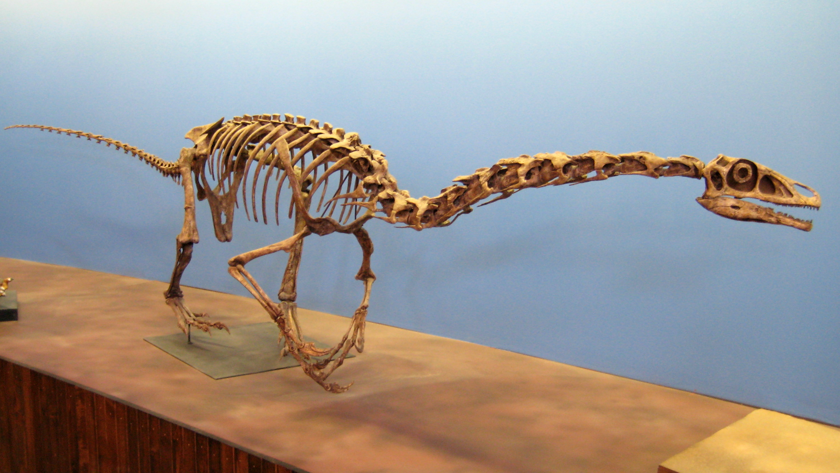 Falcarius skeleton reconstruction, Utah Museum of Natural History.